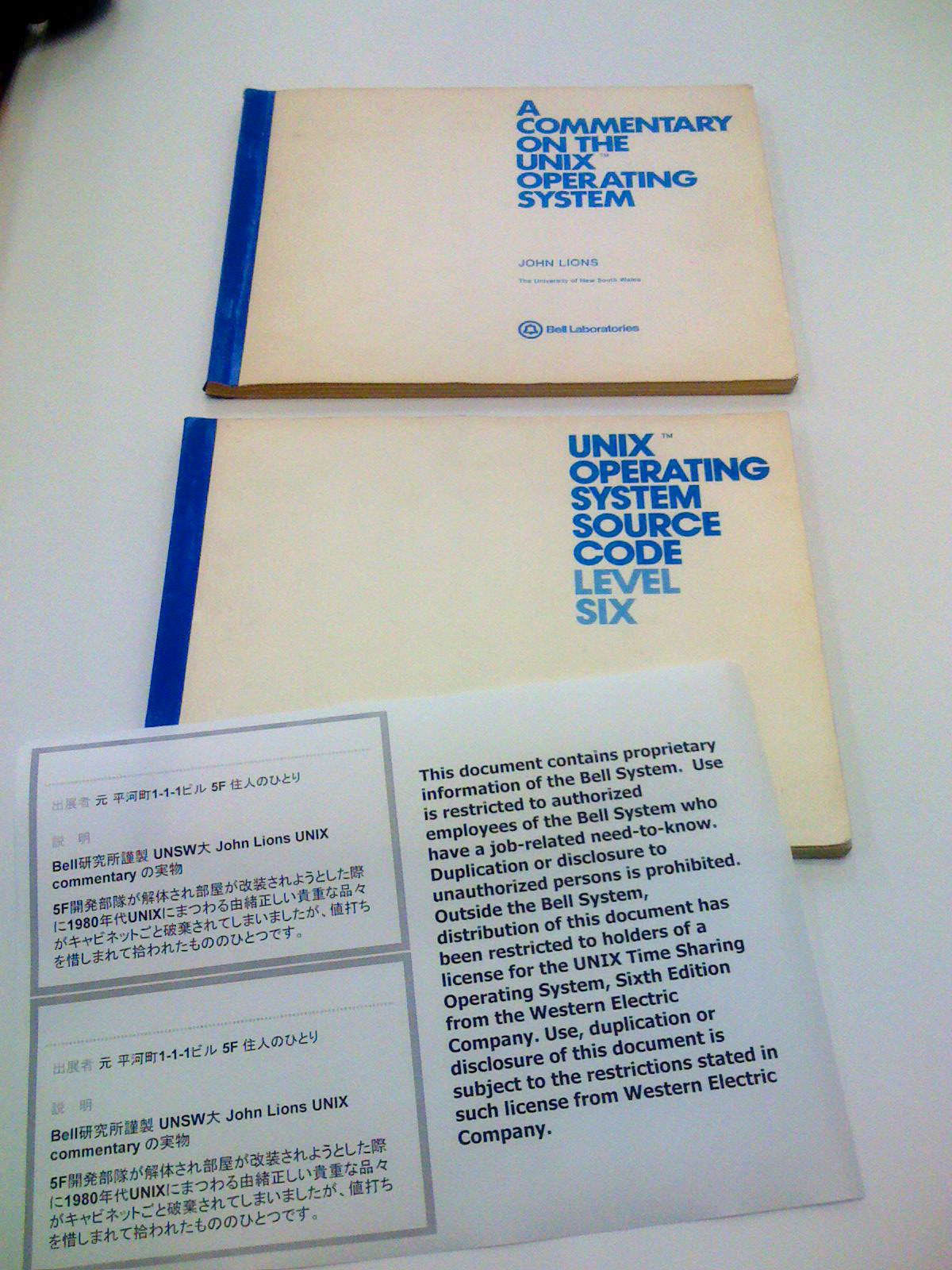 Originals of, "A Commentary on the Unix Operating System," and "Unix Operating System Source Code Level Six." On display in Japan.